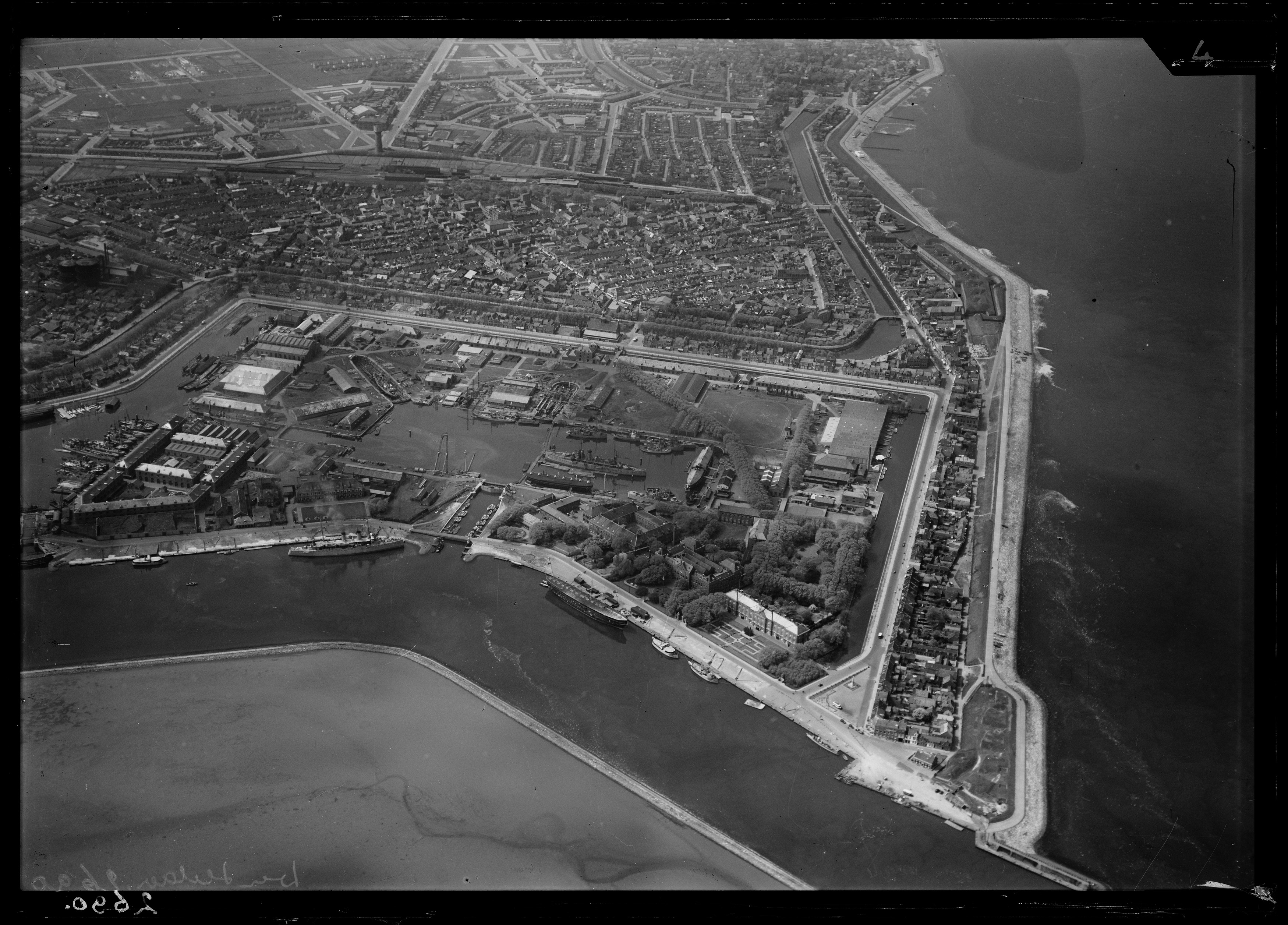 Aerial photograph of Den Helder, The Netherlands